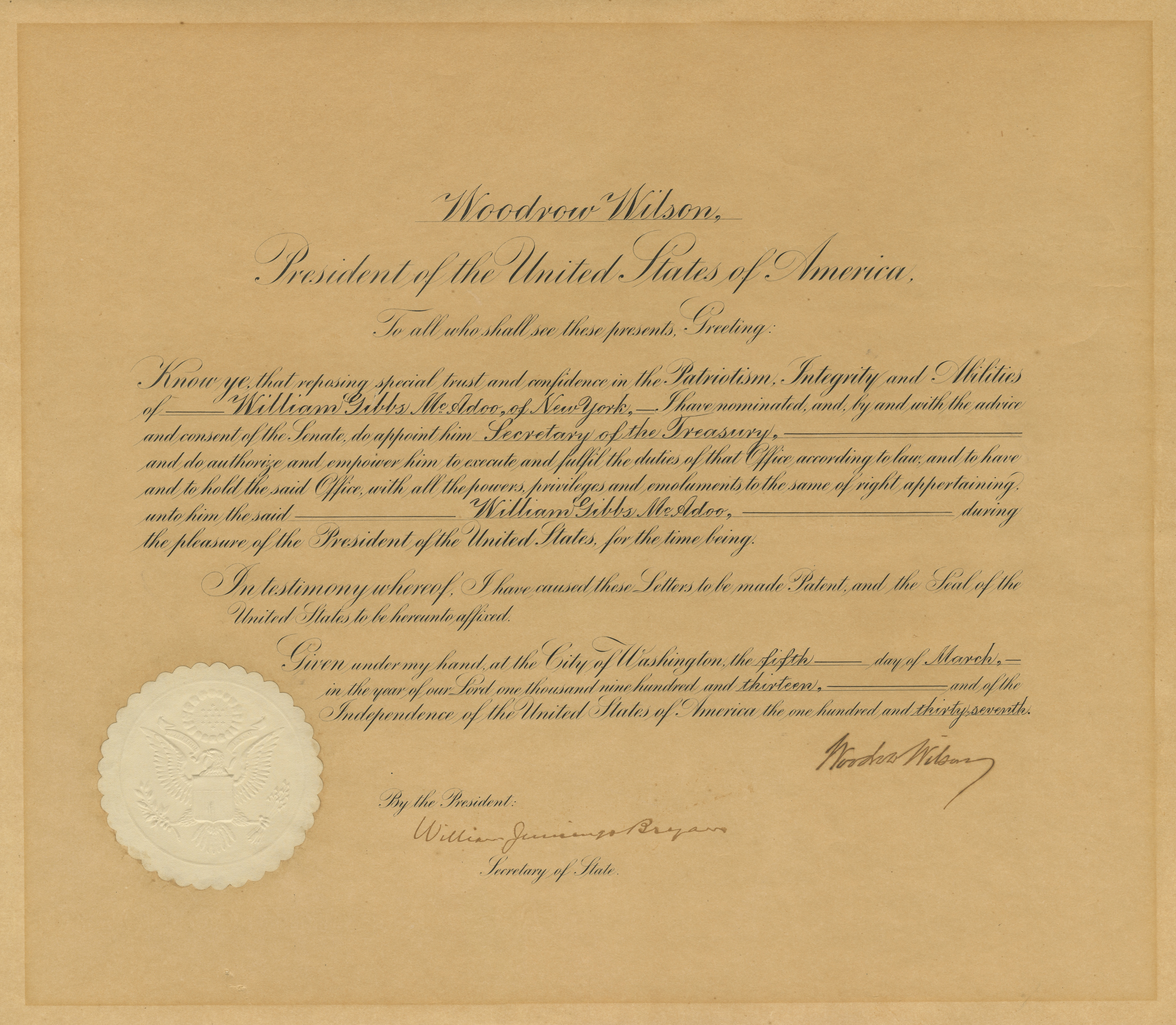 President Woodrow Wilson's Appointment of Treasury Secretary McAdoo